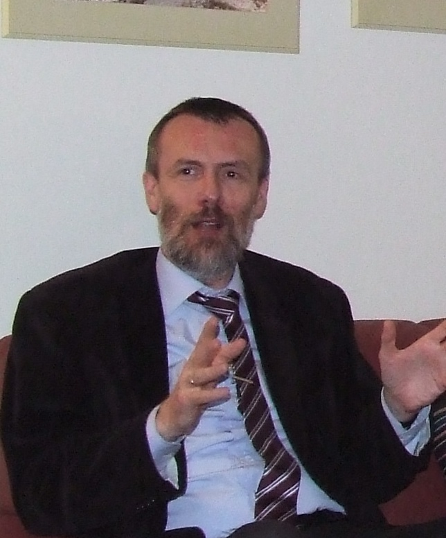 Paweł Zuchniewicz 2013